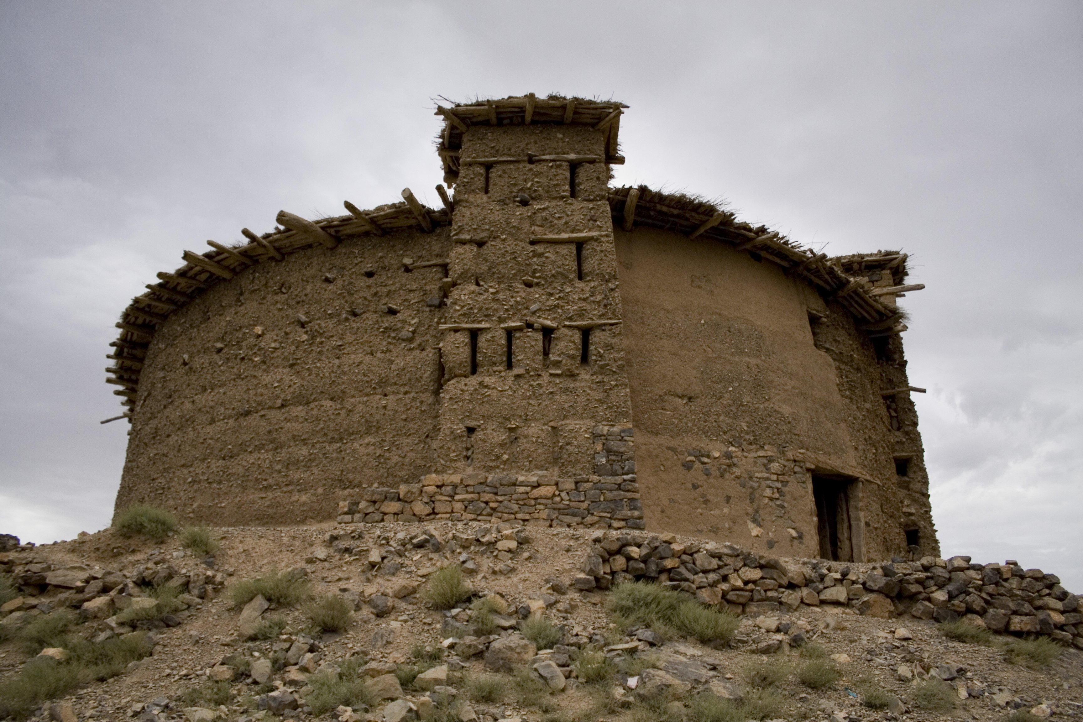 The redundant communal granary of Tabant in Aït Bouguemez, Morocco